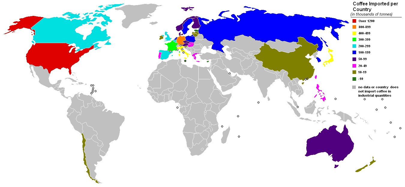 This map shows coffee imports, by country, for selected countries. Figures are in thousands of metric tonnes. Note that some countries re-export a large percentage of the coffee they import. This map shows only how much coffee is imported into certain countries, not how much of it is consumed therein. Sources Data for this map come primarily from the USDA PDF. This pdf lists the number of 60kg sacks of coffee certain countries imported in 2005. The USDA did not supply figures for the United States -- these come from the "monthly data" reports of the International Coffee Organization, [1] and (here), respectively. The reports cover June 2005 - May 2006 (13 months) and thus slightly inflate U.S. Coffee import figures. The ICO also supplies data for countries also included in the USDA report; I chose to compare both organizations' totals. They were slightly different. Note on Calculations Here follows an example of how figures from the USDA's statistics were converted: Austrian 2005 Coffee Imports = 1,538,000 sacks. One sack = 60kg. 60x1538000 = 92280000 92,280,000kg = 92,280 metric tonnes. Map Creation Created by Zantastik from blank world map version 3 originally based on a map by Vardion. Colour scheme partially borrowed from Abortion Laws World Map and Societal Attitudes Towards Homosexuality. Created entirely in Microsoft Paint, converted to png format using Irfan View.